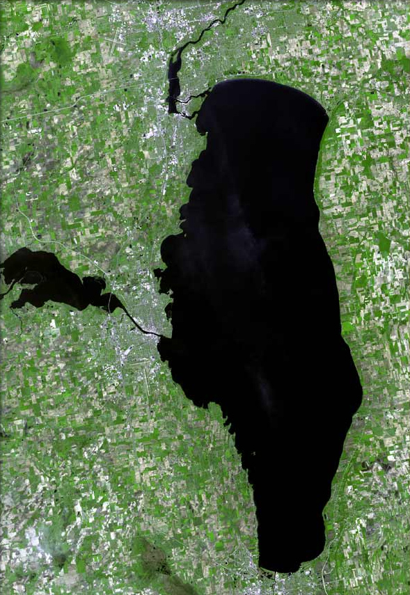 The raw satellite imagery shown in these images was obtain from NASA and/or the US Geological Survey. Post-processing and production by